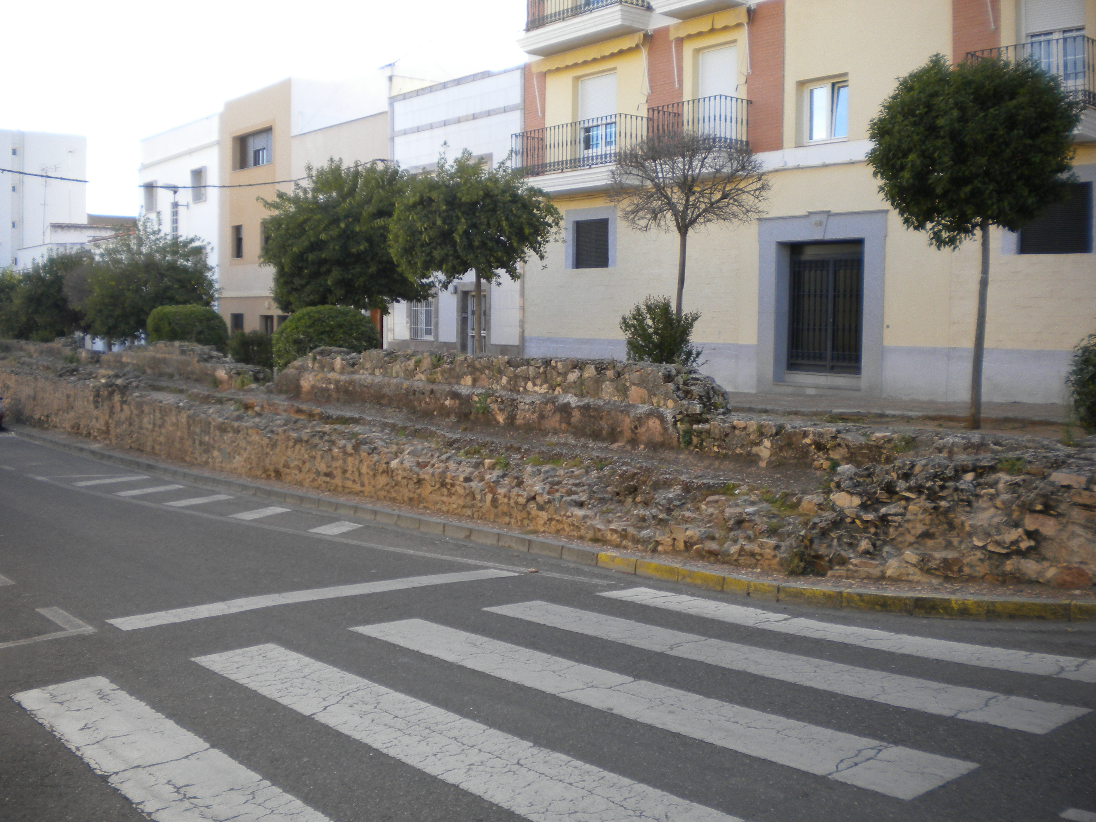 Cornalvo aqueduct (Aqua Augusta) in Mérida